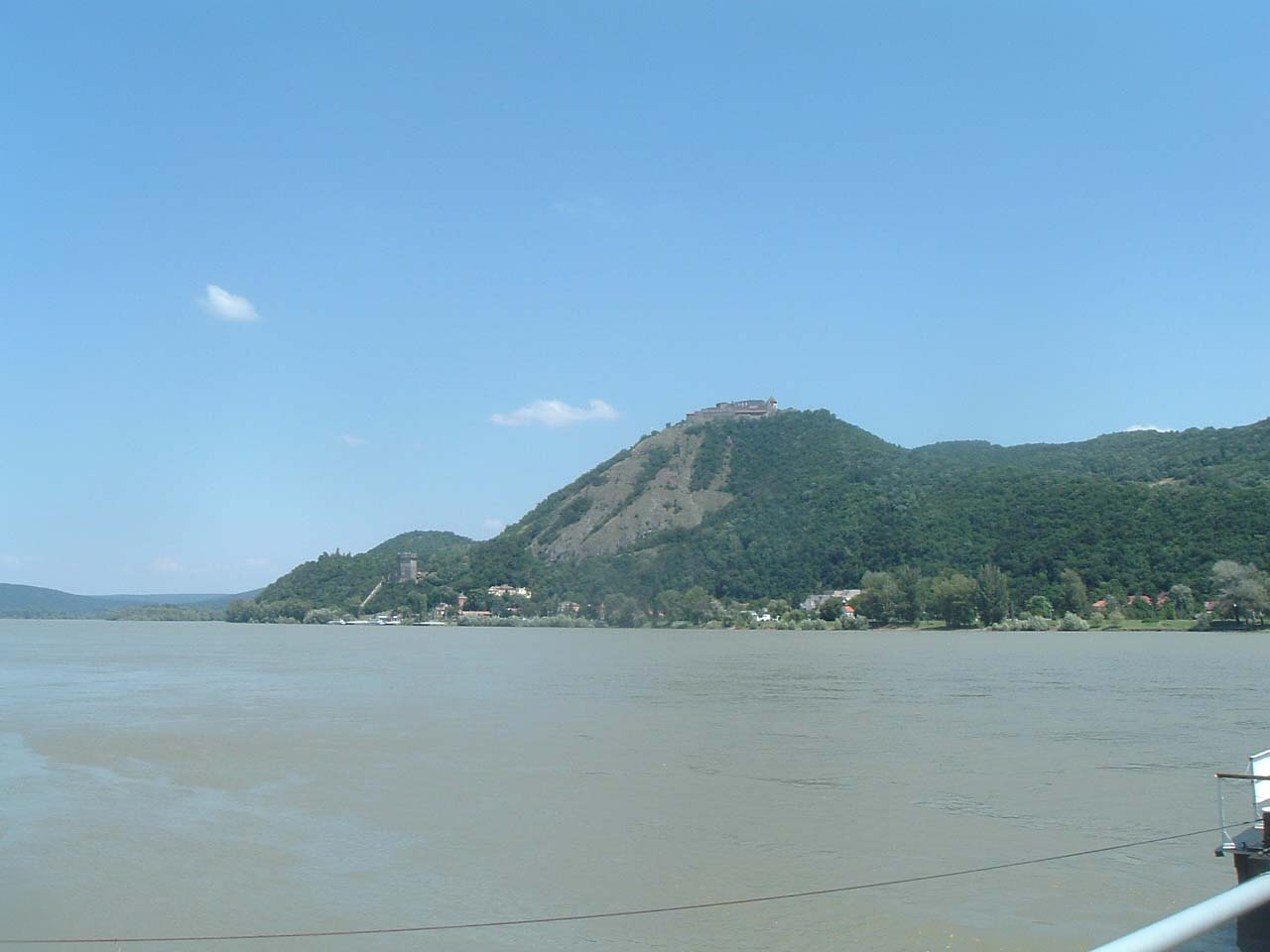 View of Visegrád, Hungary